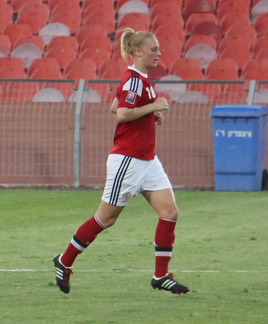 Luna Gewitz. Israel - Denmark, 2015 FIFA Women's World Cup qualification UEFA Group 3, 19 June 2014.